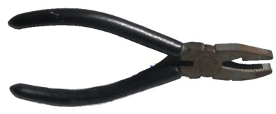 Breaker-grozier pliers utilized for breaking and grozzing glass.